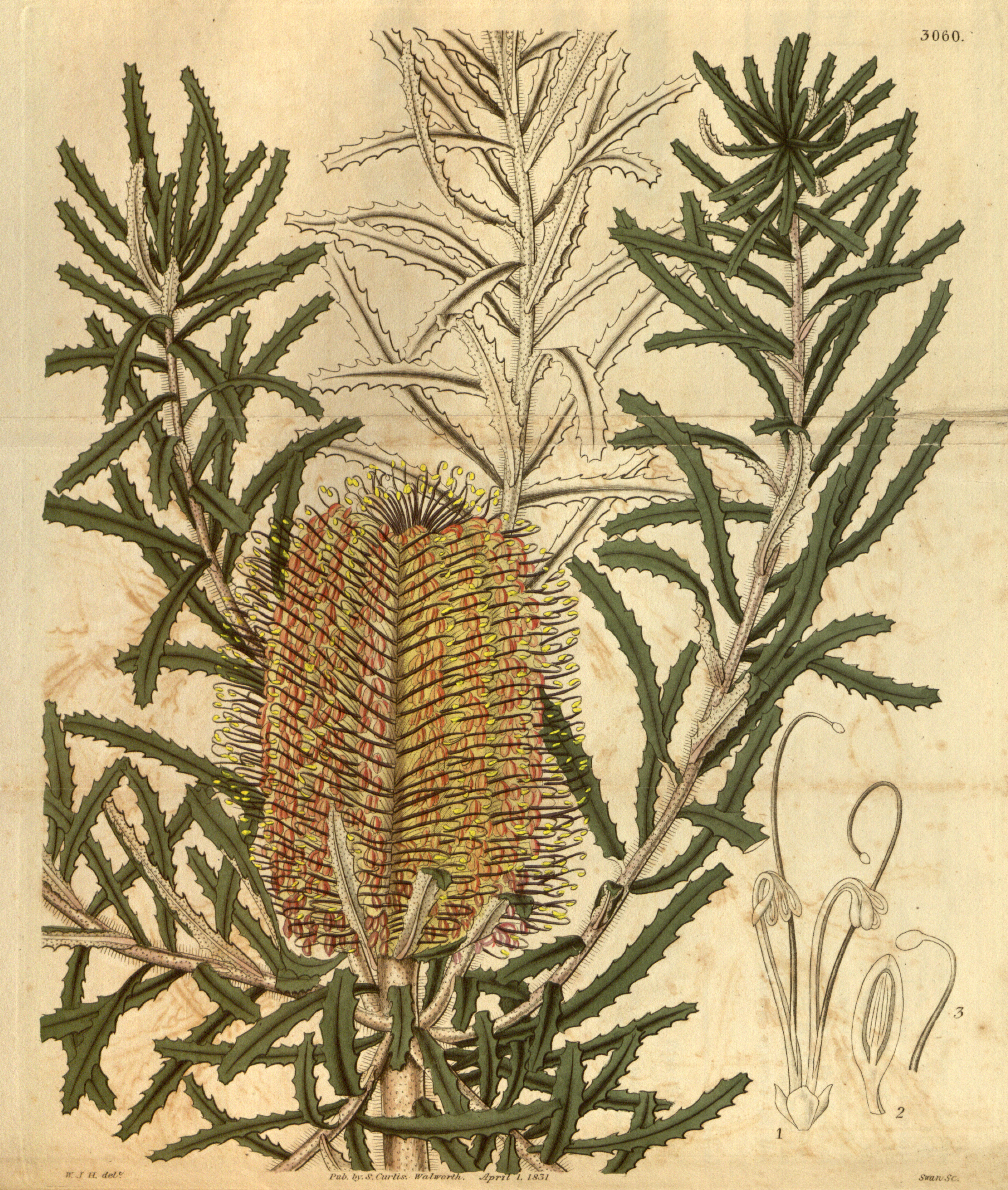 Volume 58 Pl 3063. The title is "Banksia_littoralis? [sic] Shore Banksia." The image contains a species currently known as: The image has the signature of W. J. H. and the date 1 April 1831 ...